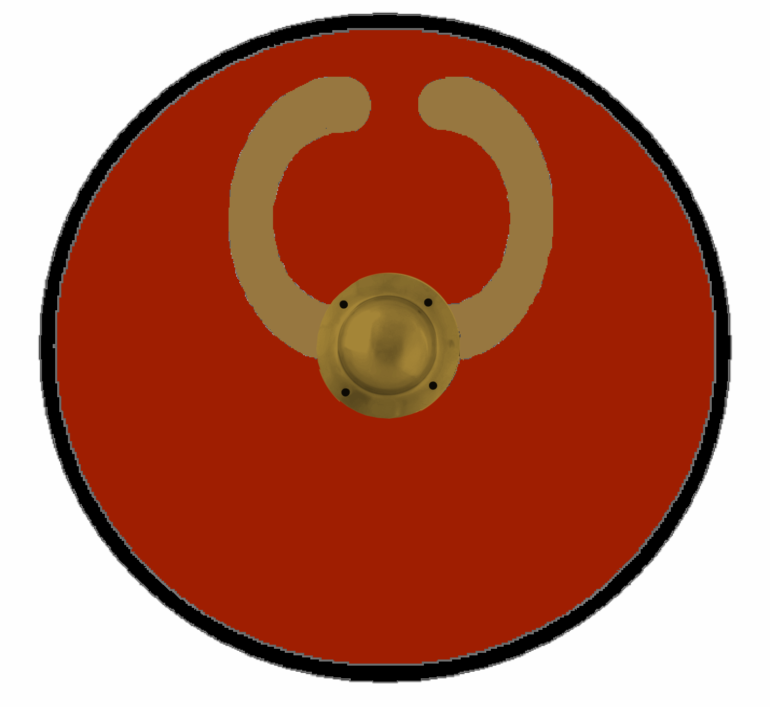 Shield pattern of the Constantiaci, 15th of the 18 pseudocomitatenses units listed in the Magister Peditum's infantry roster, Bodleian manuscript Notitia Dignitatum, 5th century.